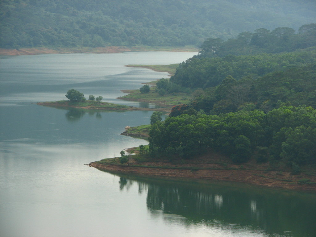 View of the lake at Kotamale, Sri Lanka.